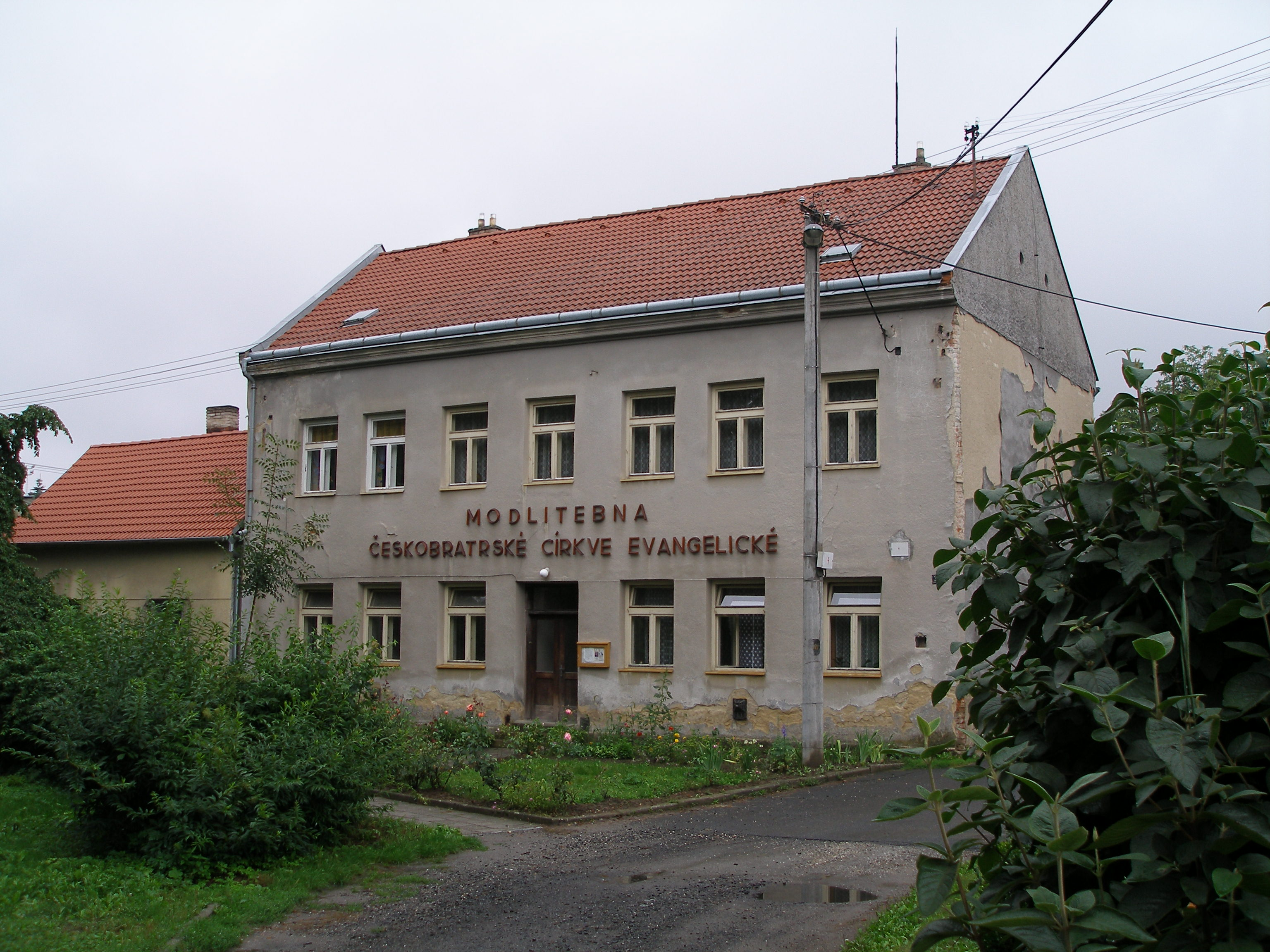 Napajedla, kazatelska stanice CCE